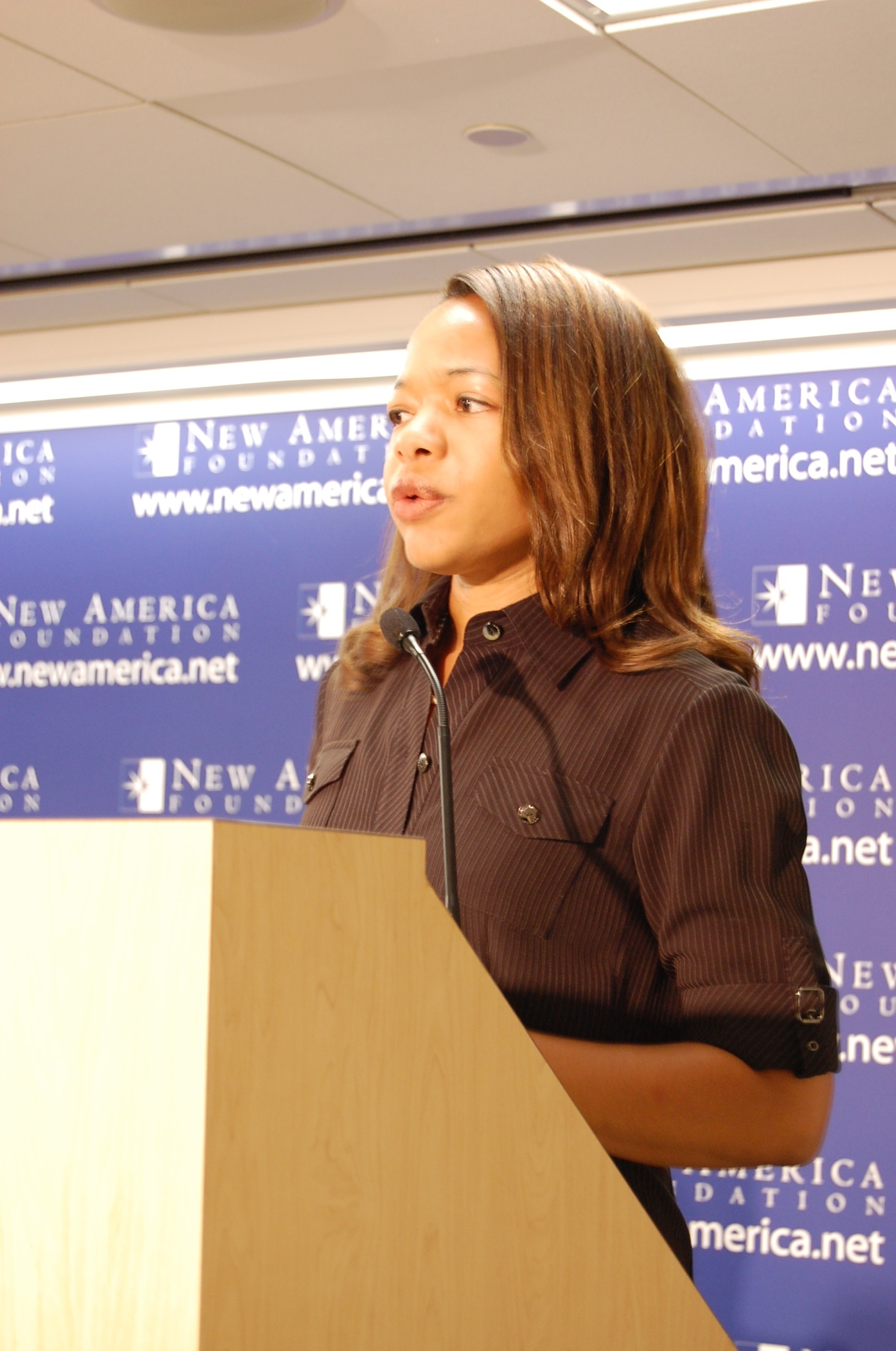 Kristen Clarke, Co-director, Political Participation Group of the NAACP Legal Defense and Educational Fund